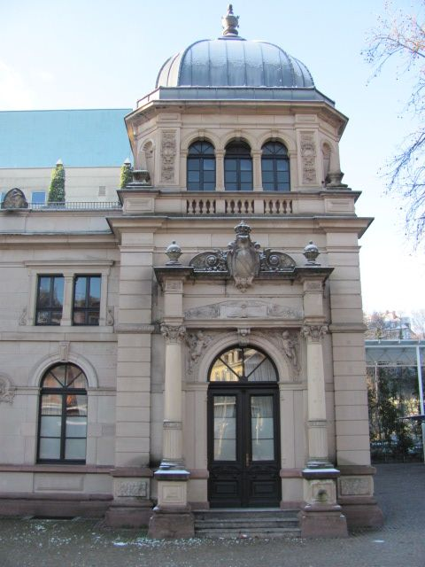 Former rly station Baden-Baden. To the right: Royal pavillon